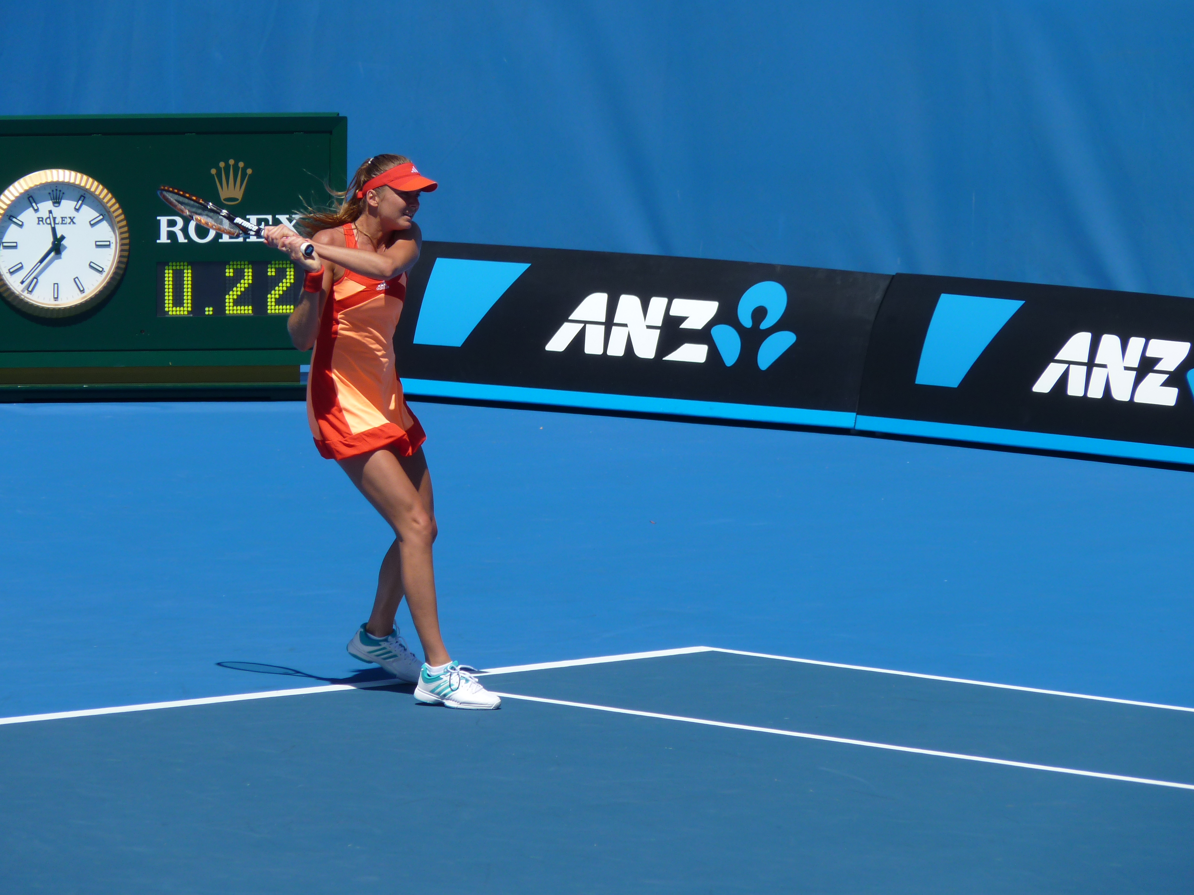 Daniela Hantuchova at the 2012 Aus Open